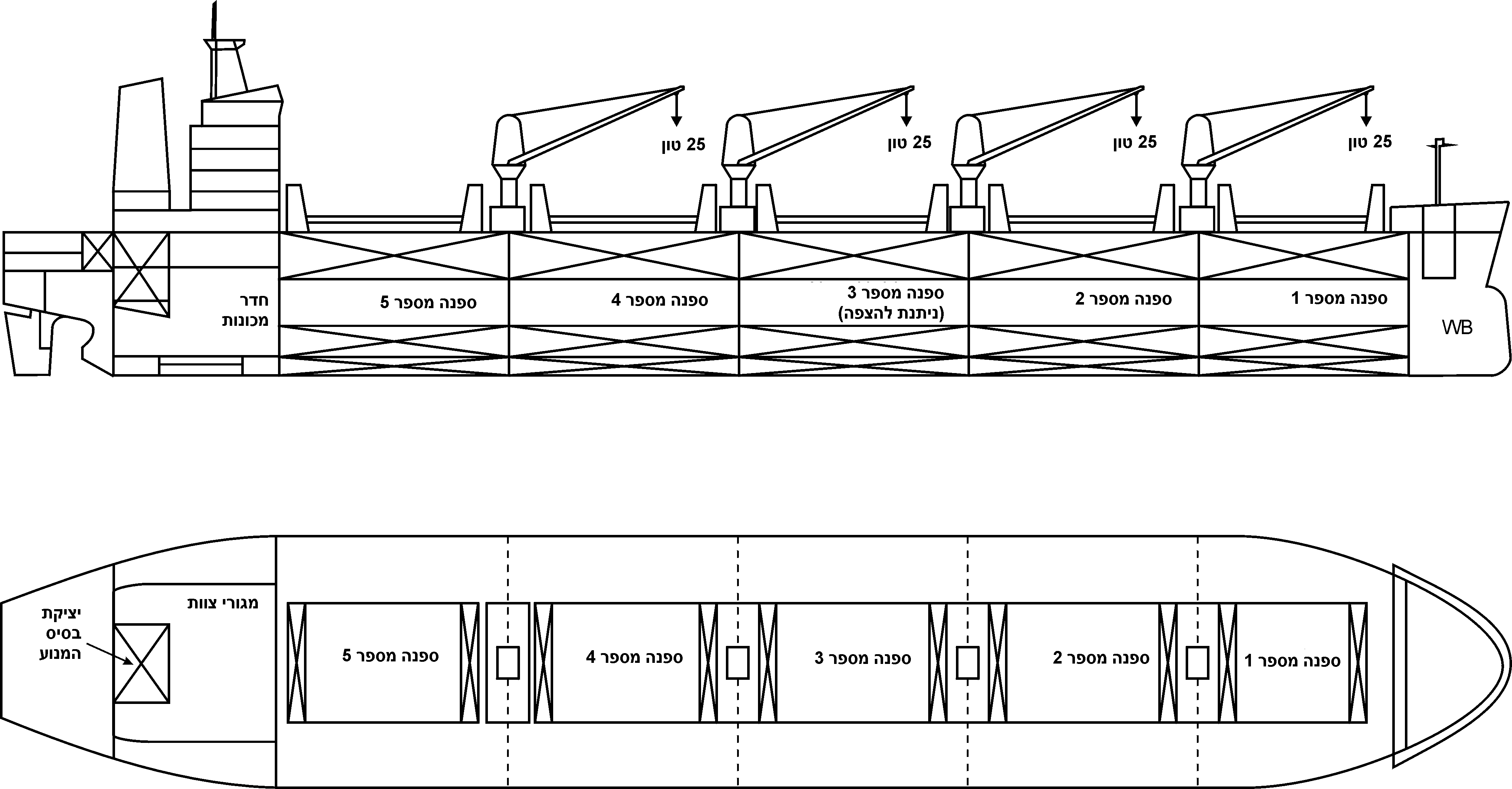 General arrangement of a Panamax geared bulk carrier, showing typical features (aft engine room, hold arrangements...)